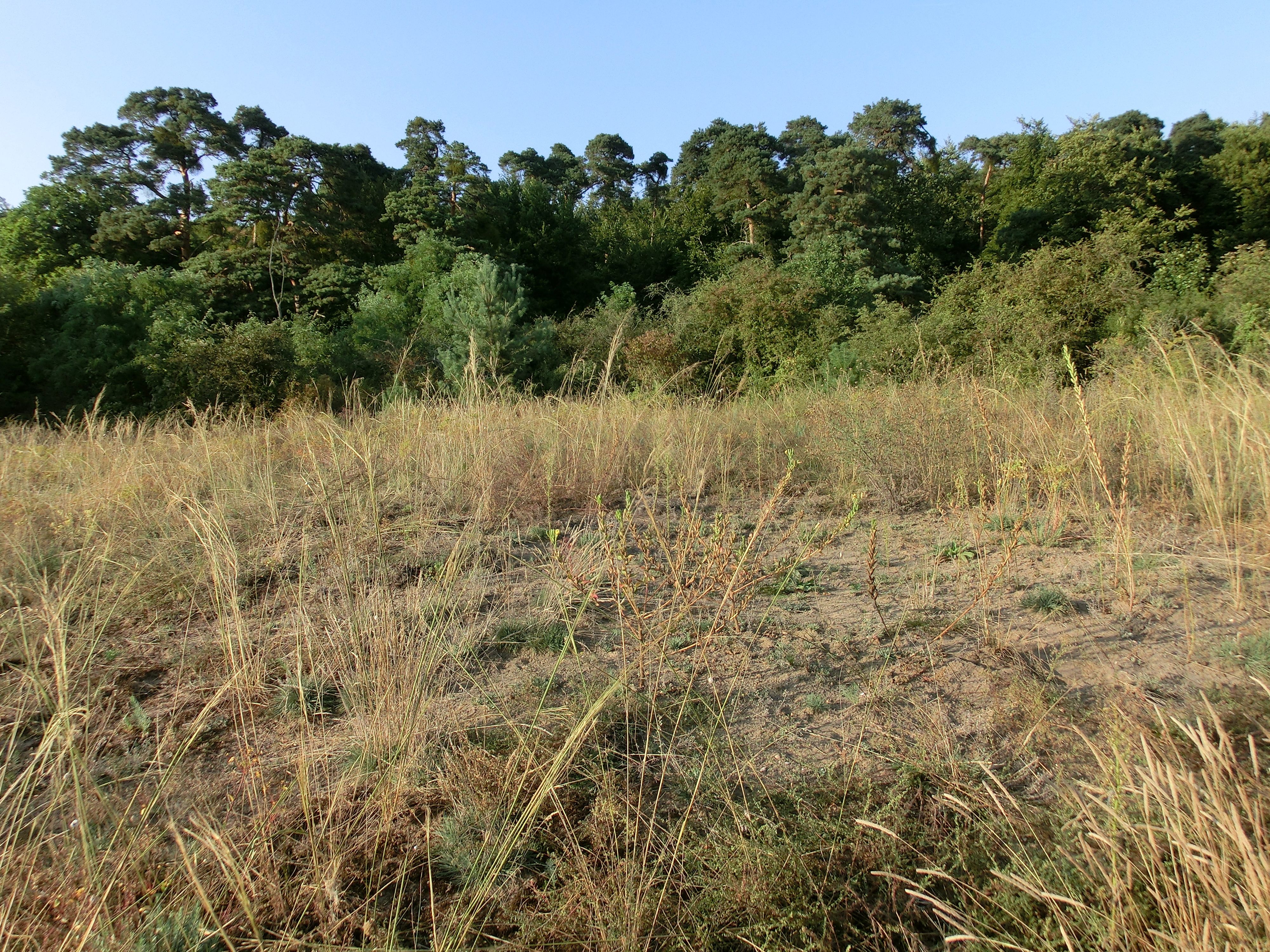 Special Areas of Conservation and Natural monument "Seeheimer Düne" (Landkreis Darmstadt-Dieburg, Hesse, Germany). Sub-Pannonic steppic grasslands with Stipa capillata